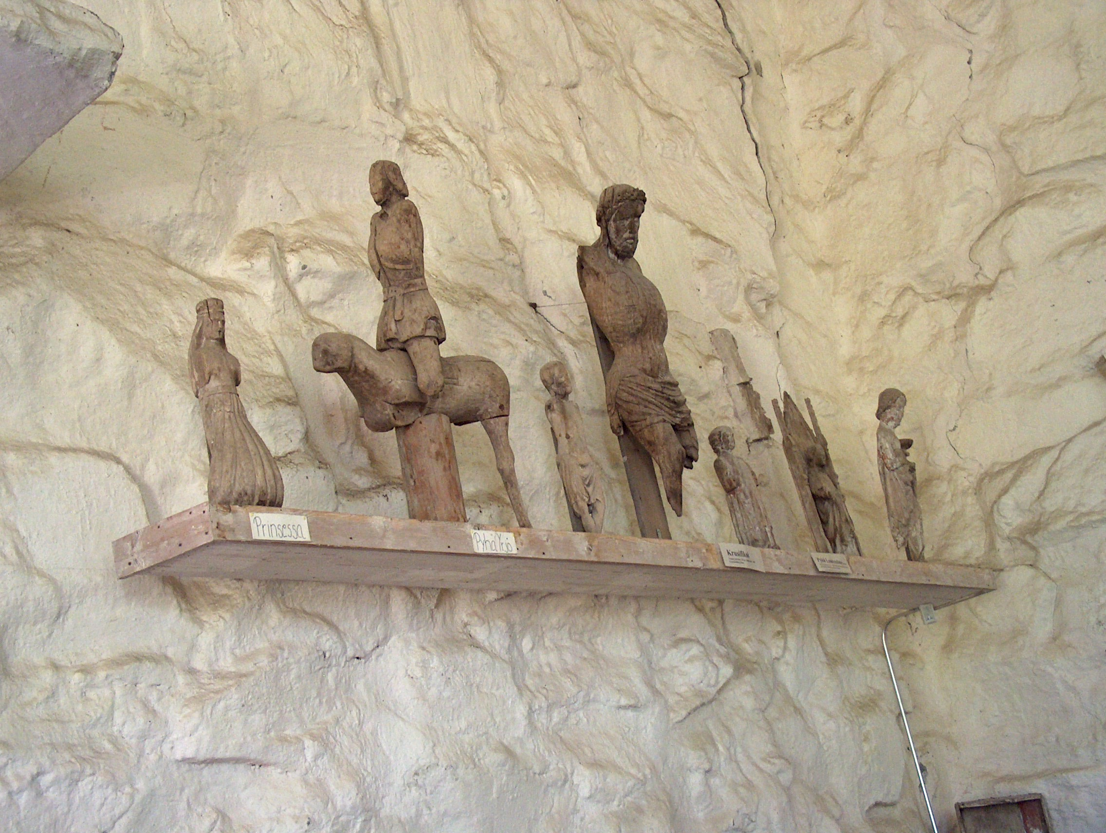 Sastamala Medieval Church of Saint Mary in summer 2004 – Wooden statues from the Middle Ages